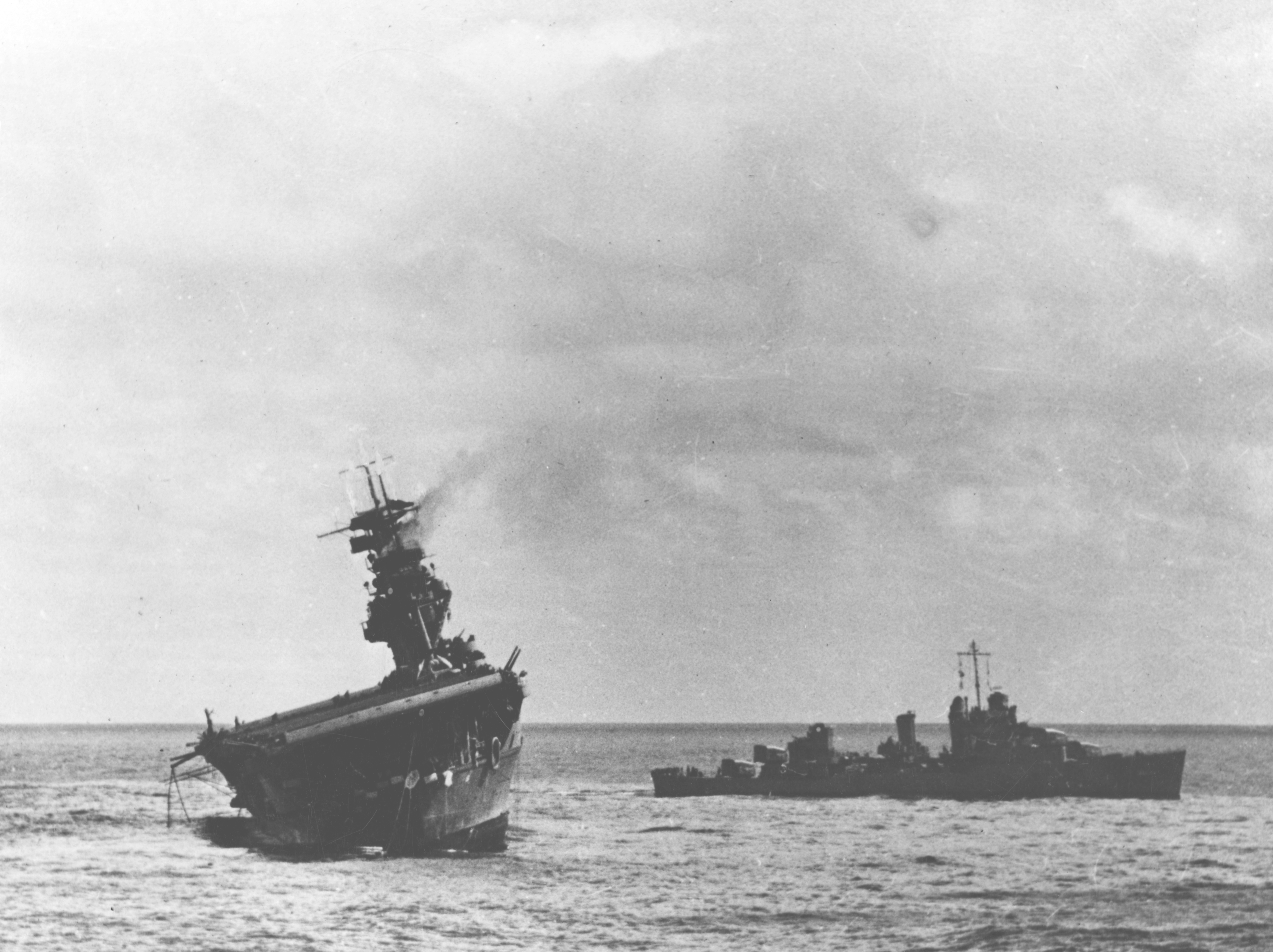 The U.S. Navy aircraft carrier USS Yorktown (CV-5) being abandoned by her crew after she was hit by two Japanese Type 91 aerial torpedoes, 4 June 1942. The destroyer USS Balch (DD-363) is standing by at right. Note the oil slick surrounding the damaged carrier, and inflatable life raft being deployed off her stern. Note that the wartime censor has erased the CXAM-radar aboard Yorktown.